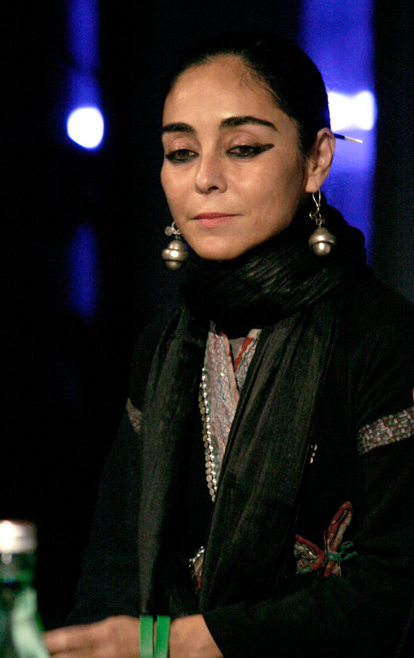 Shirin Neshat at an open discussion about her film Zanan bedun-e mardan (Women without men) during the Vienna International Film Festival 2009.